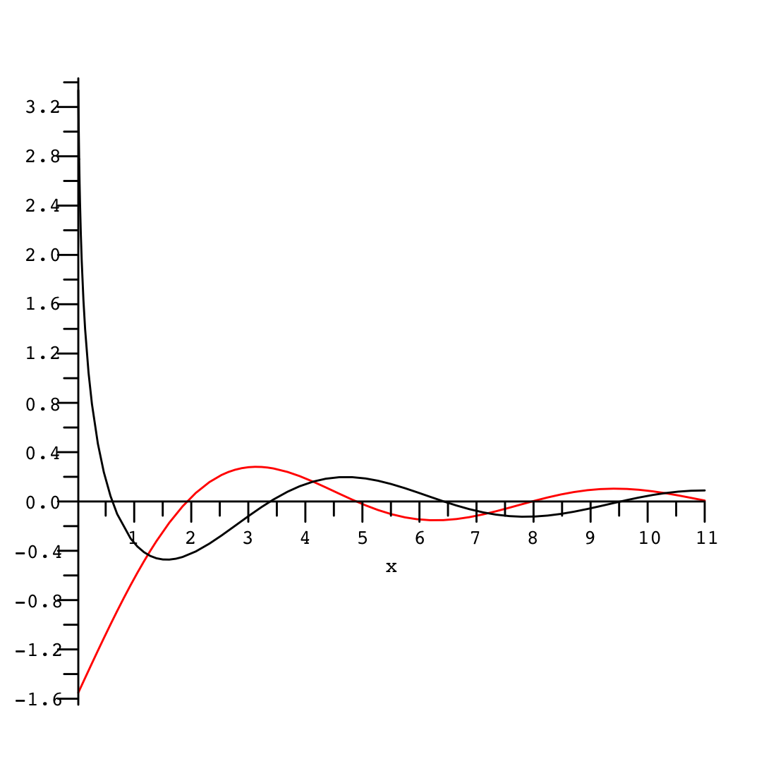 Exponential integral of imaginary argument, E 1 ( i x ) {\displaystyle {\rm {E _{1}({\rm {i \!~x)} versus x {\displaystyle ~x~} , real part (black) and imaginary part(red)